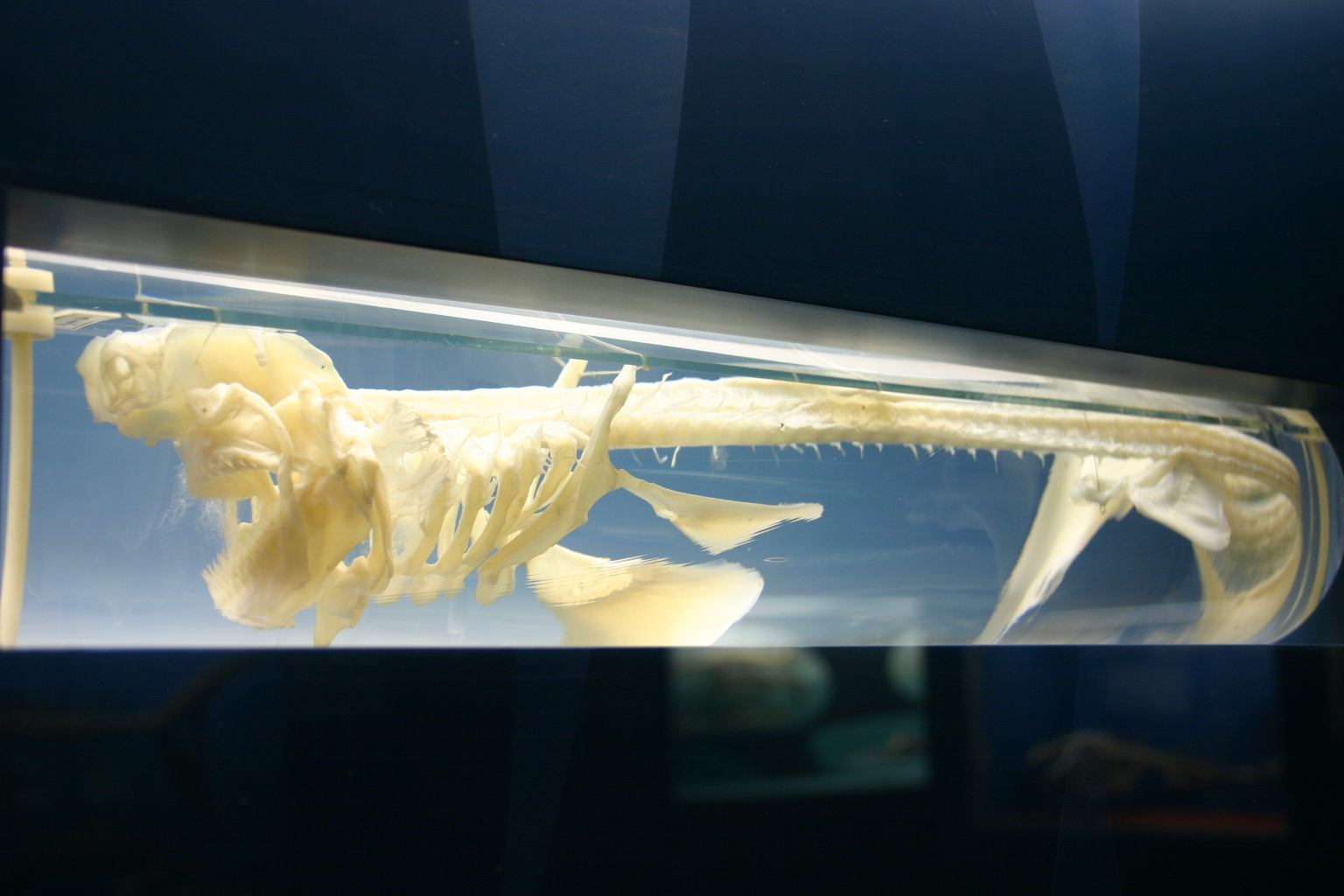 Dalatias licha, Skeleton in the Smithsonian National Museum of Natural History: Hall of Bones